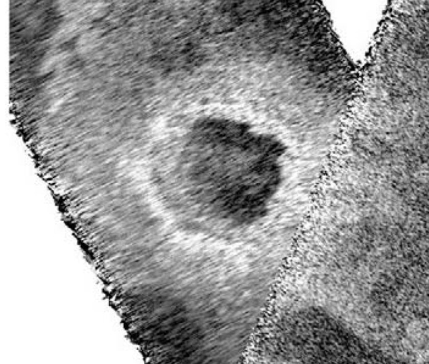 Selk impact crater on Saturn's moon Titan. Location: 7°N 199°W. The planned target of the Dragonfly rotorcraft mission to Titan.